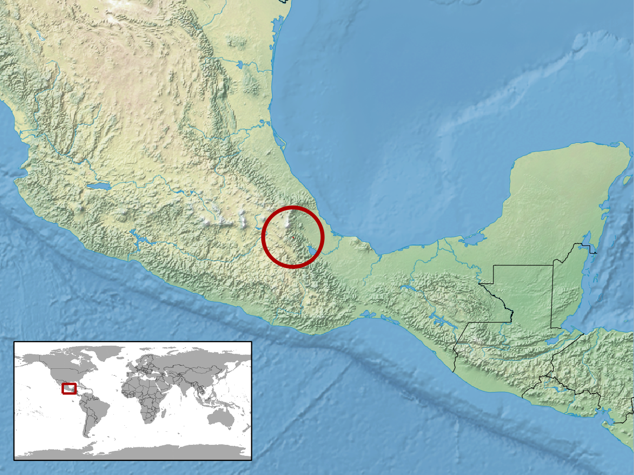 geographic distribution of Cerrophidion petlalcalensis (Native: Mexico)